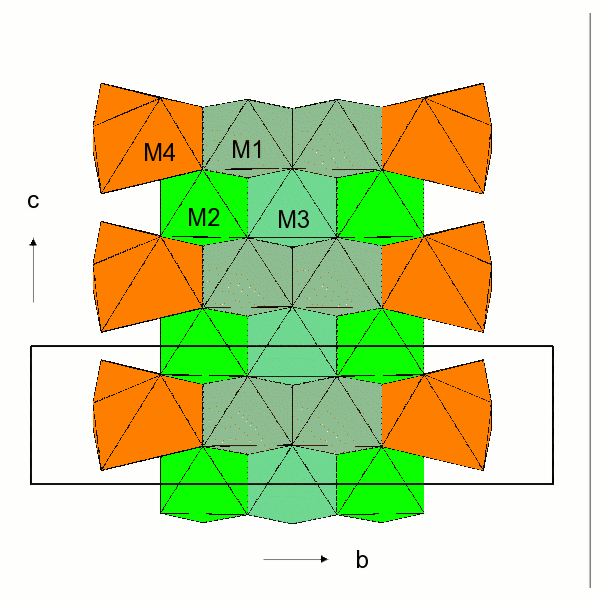 Amphibole structure: Linking of Oktahedra to a band of oktahedras author: W. Bubenik